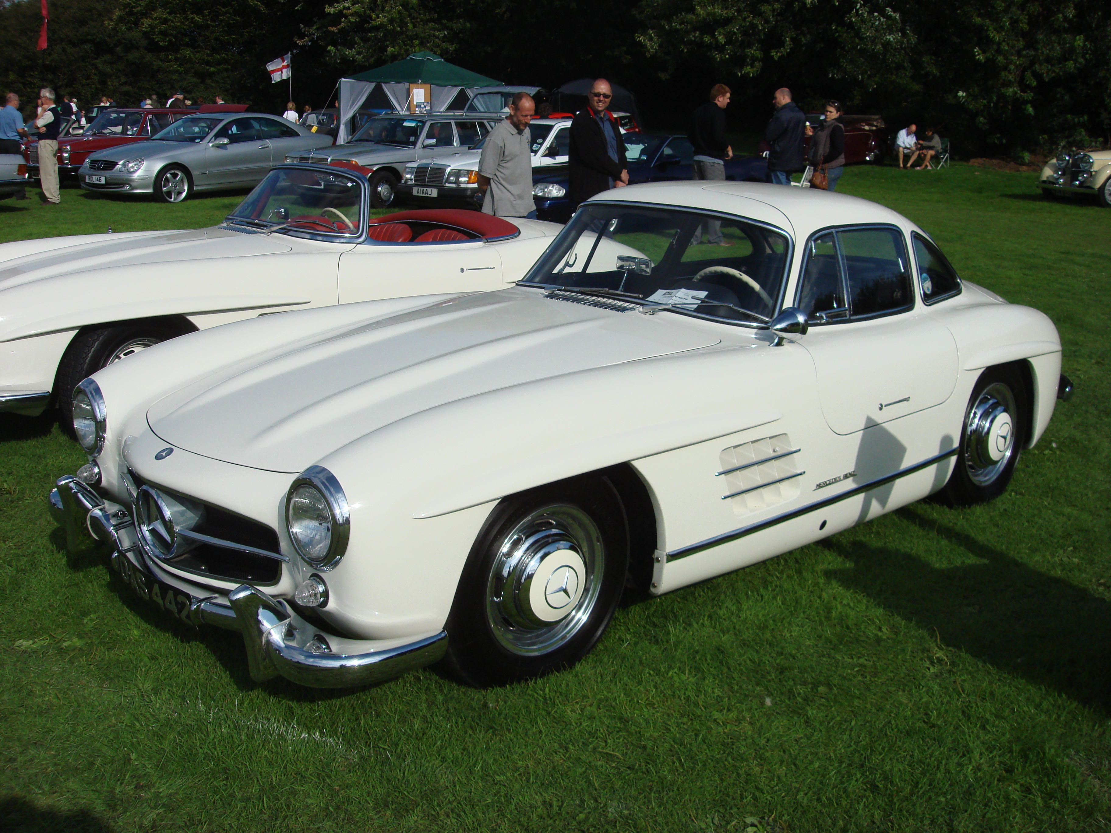 Mercedes-Benz 300 SL Roadster